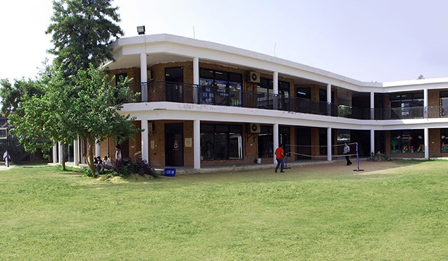 Froebel's International School Main Branch